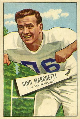 American football player Gino Marchetti on a 1952 Bowman Large card.